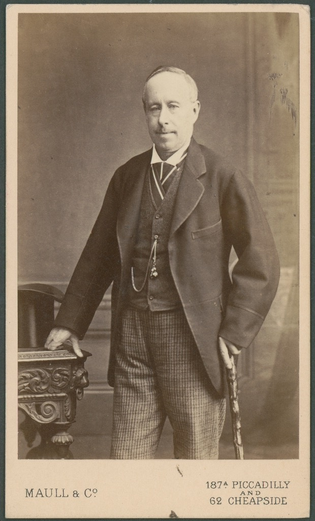 George French Angas. Photograph; 13.4 cm x 8.9 cm.